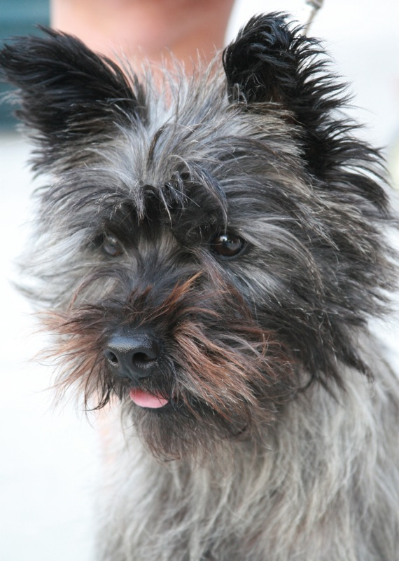 Cairn Terrier